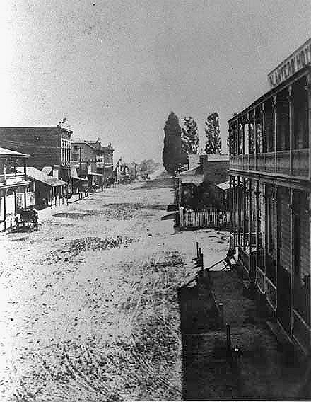 The city of Anaheim, Southern California, in 1879.